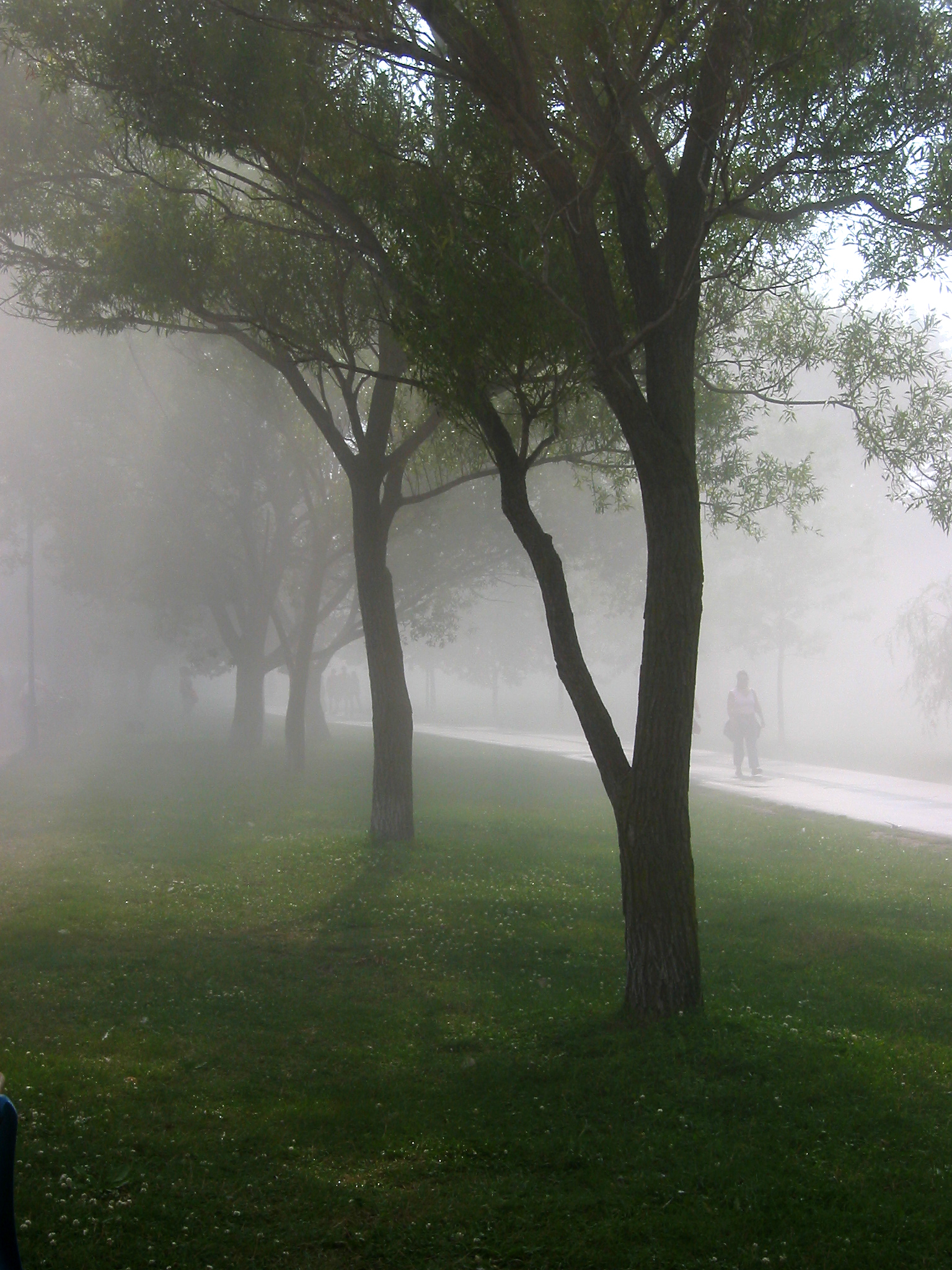 Due to a combination of heat and humidity and a very quick downpour, a strange thick fog rolled into the Toronto Beaches. You could barely see through it and it was about 10 degrees cooler than the air.